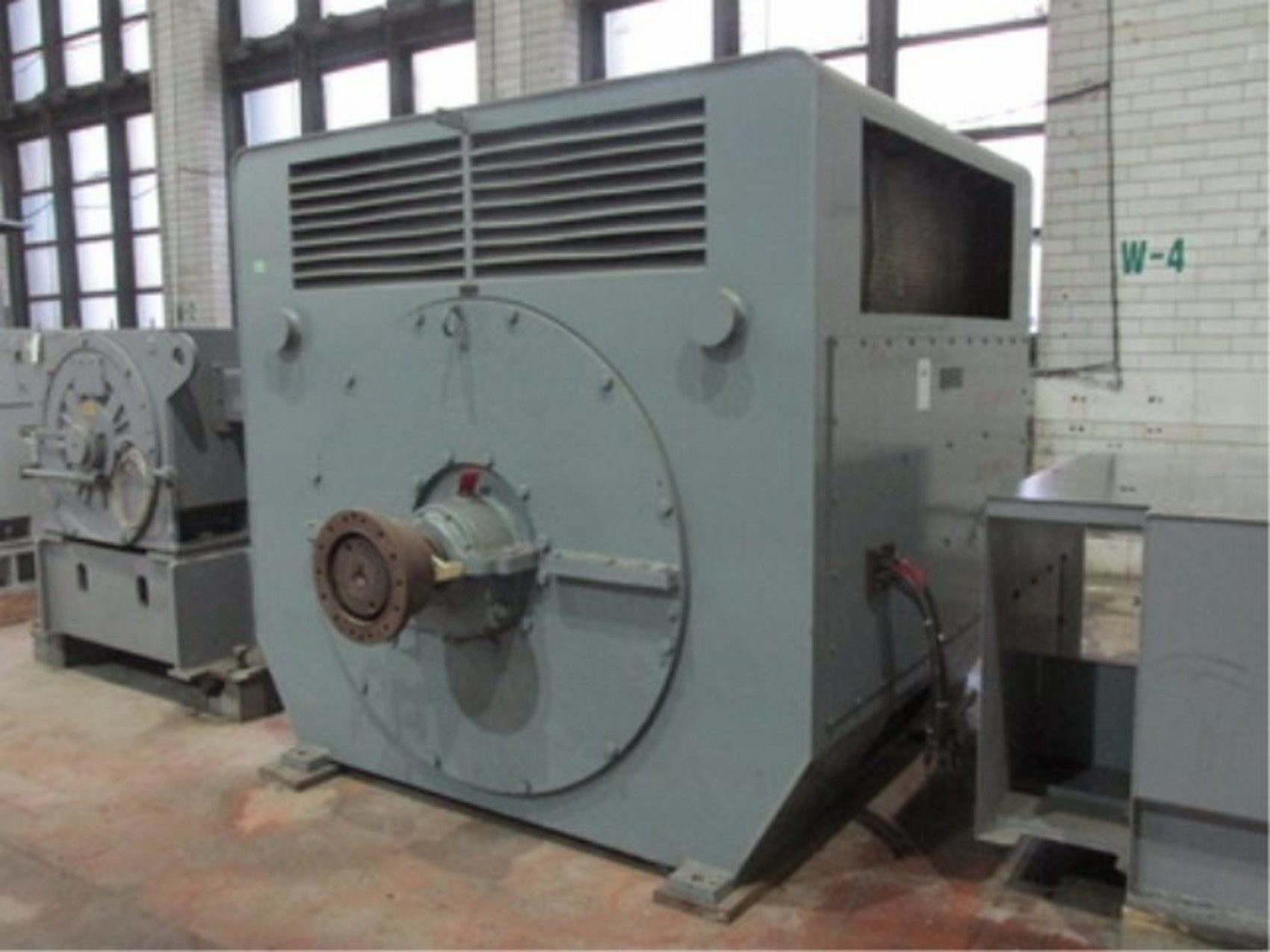 Elliott 4,500 HP AC Induction Electric Motor.